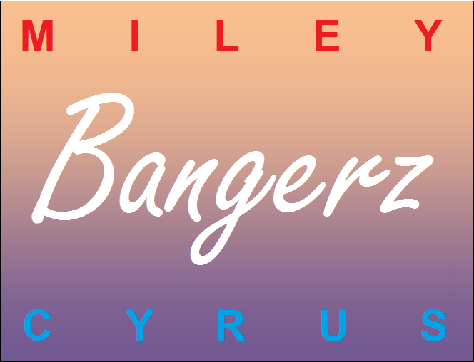 Bangerz Cover - Miley Cyrus